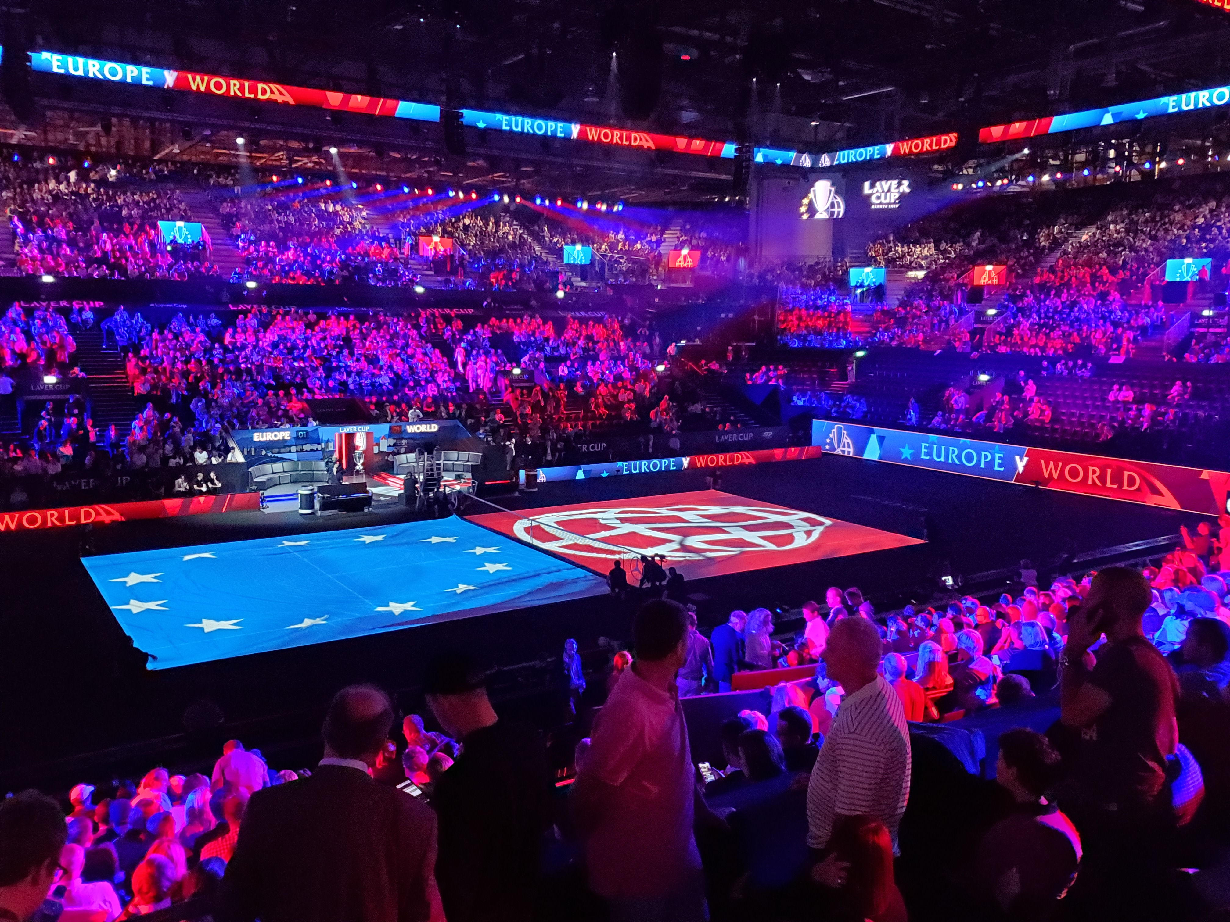 Laver Cup black court before match